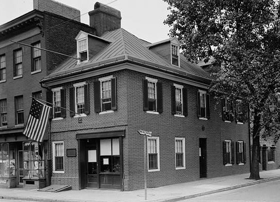 Flag House, 844 East Pratt & Albemarle Streets (Baltimore, Independent City, Maryland) (cropped)